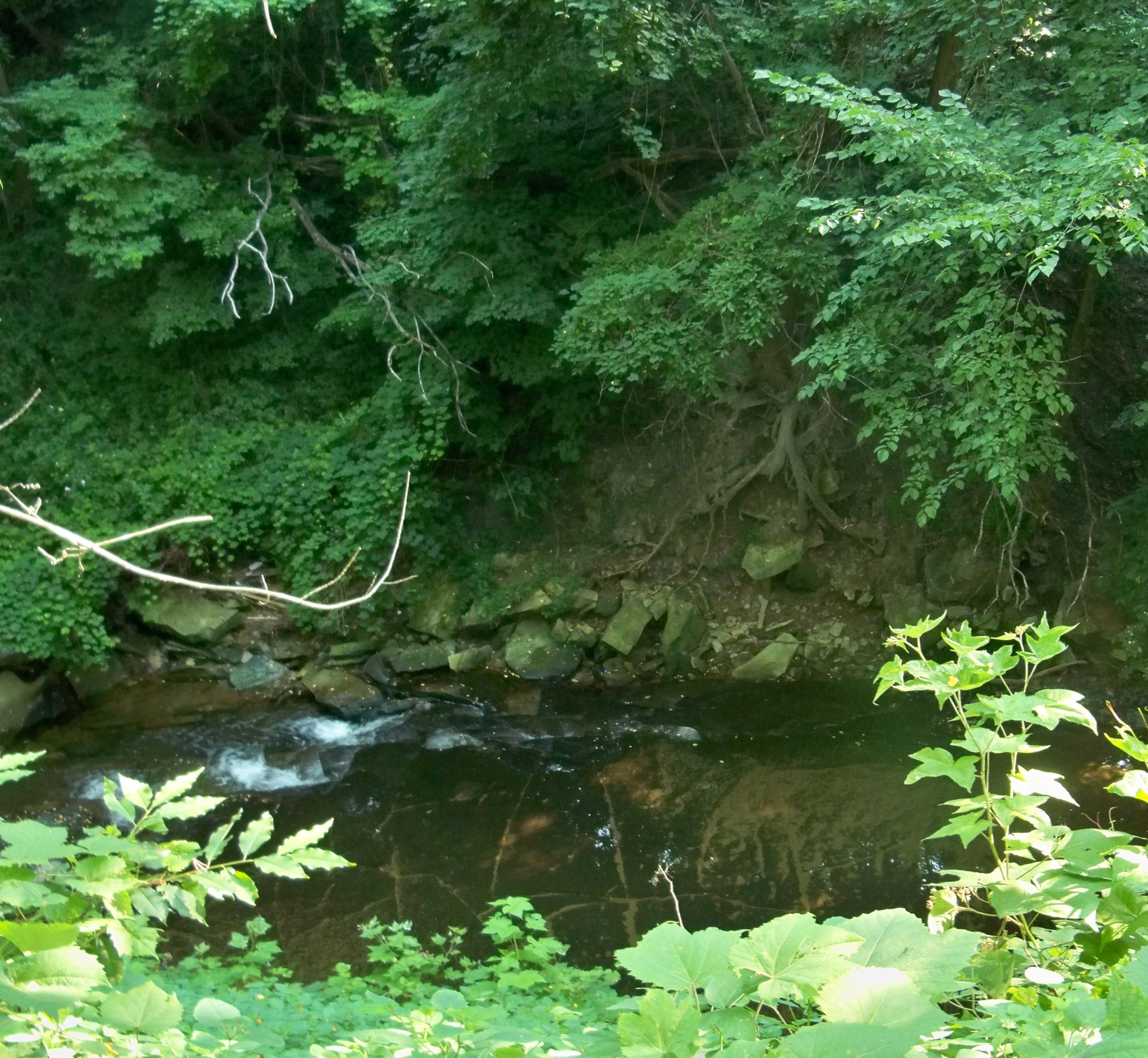 Euclid Creek